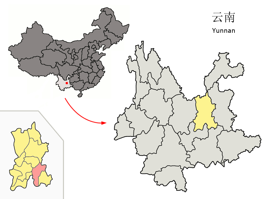 Location of Yiliang County (pink) and Kunming prefecture (yellow) within Yunnan province of China Map drawn in september 2007 using various sources, mainly : Yunnan province administrative regions GIS data: 1:1M, County level, 1990 Yunnan Counties map from